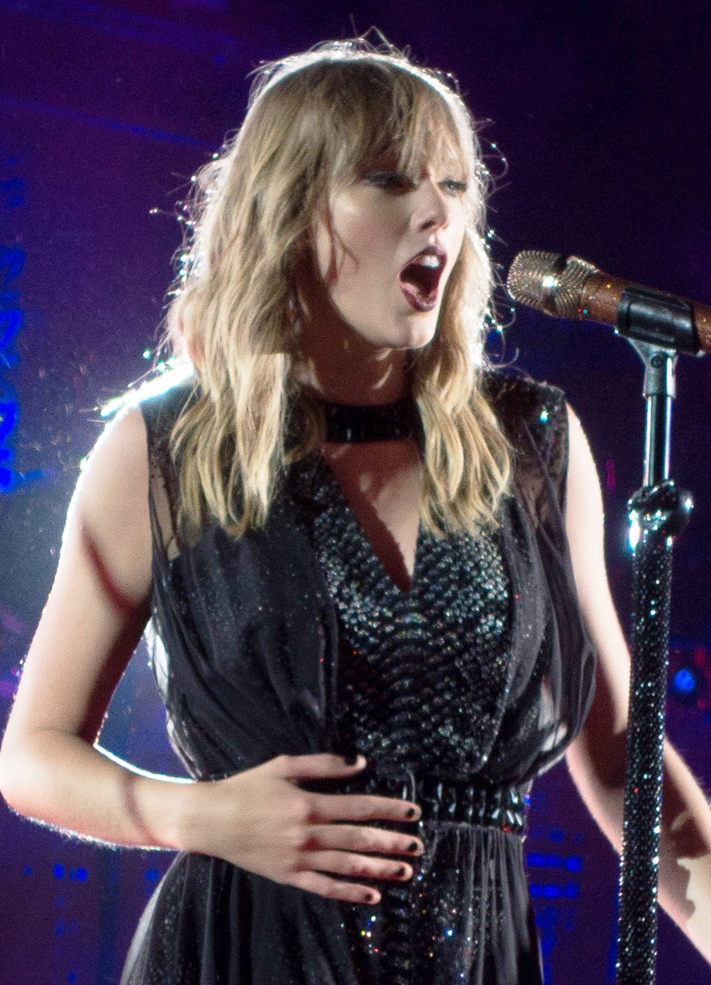 Swift performing on her Reputation Stadium Tour in May 2018